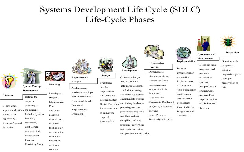 Systems Development Life Cycle